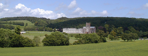 Milton Abbey from the hills behind Hilton.